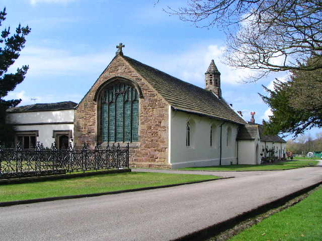 Lathom Chapel, Ormskirk. Built after the Battle of Bosworth and consecrated in 1500